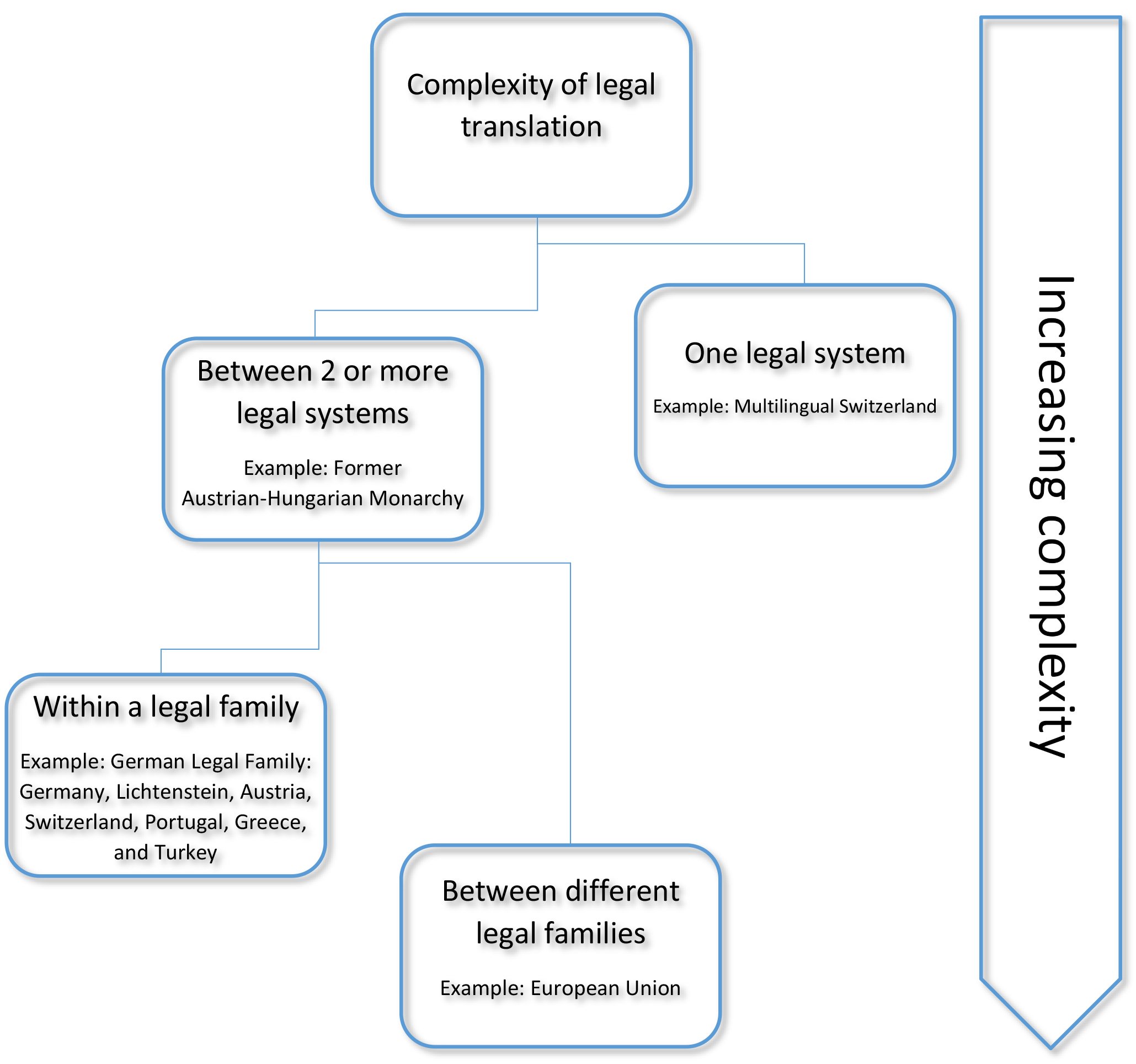 Diagram: complexity of legal translations by Peter Sandrini.